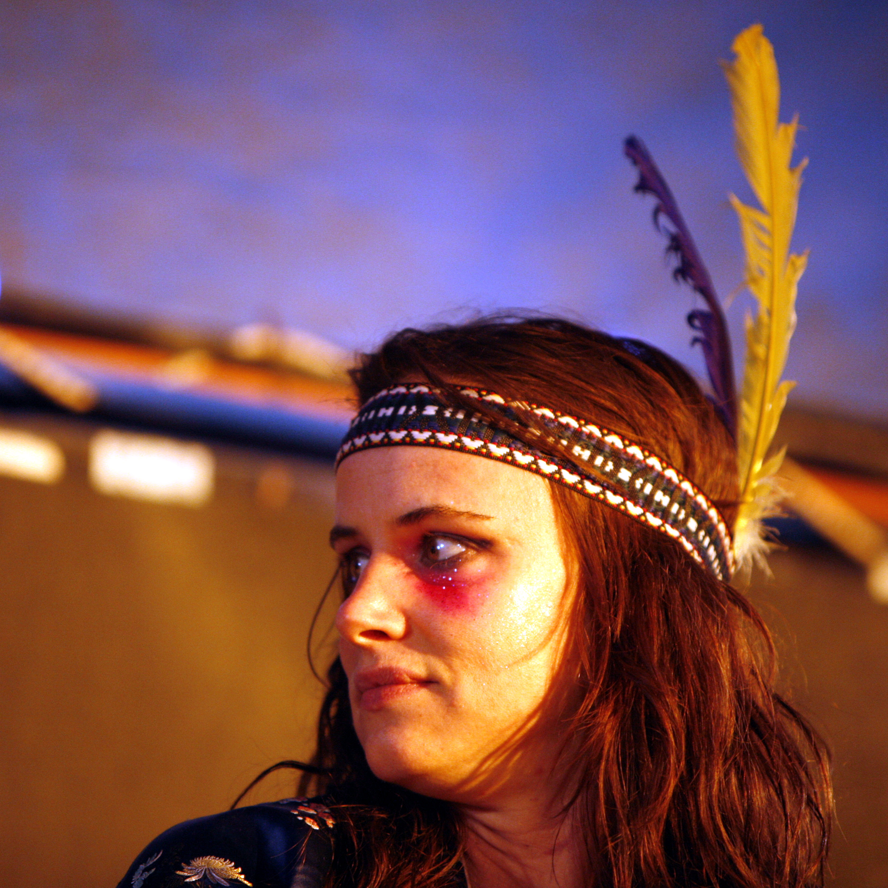 Juliette Lewis from Juliette and the Licks at the Eurockéennes of 2007